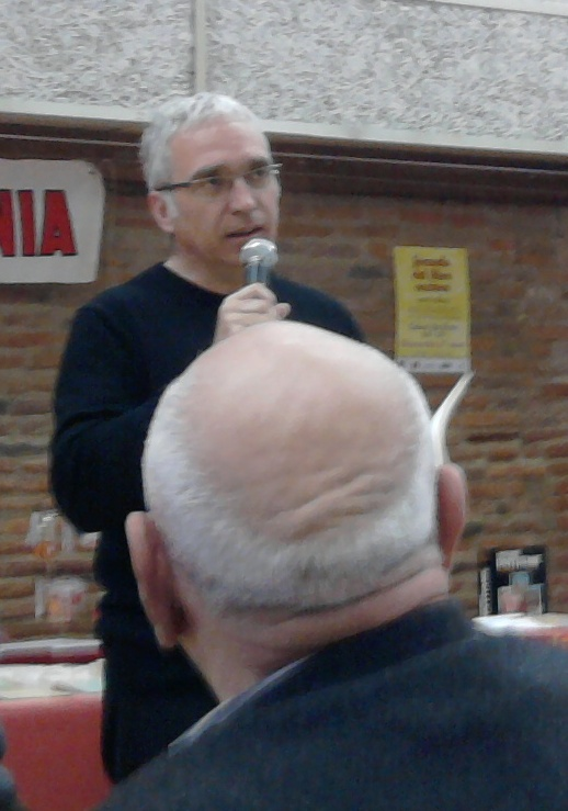 A picture of the Occitan writer Jan-Loís Lavit (Jornada del Libre Occitan, March 27th 2011)